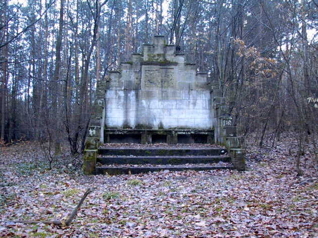 "Minnesängerplatz" near Bettenburg, Bavaria